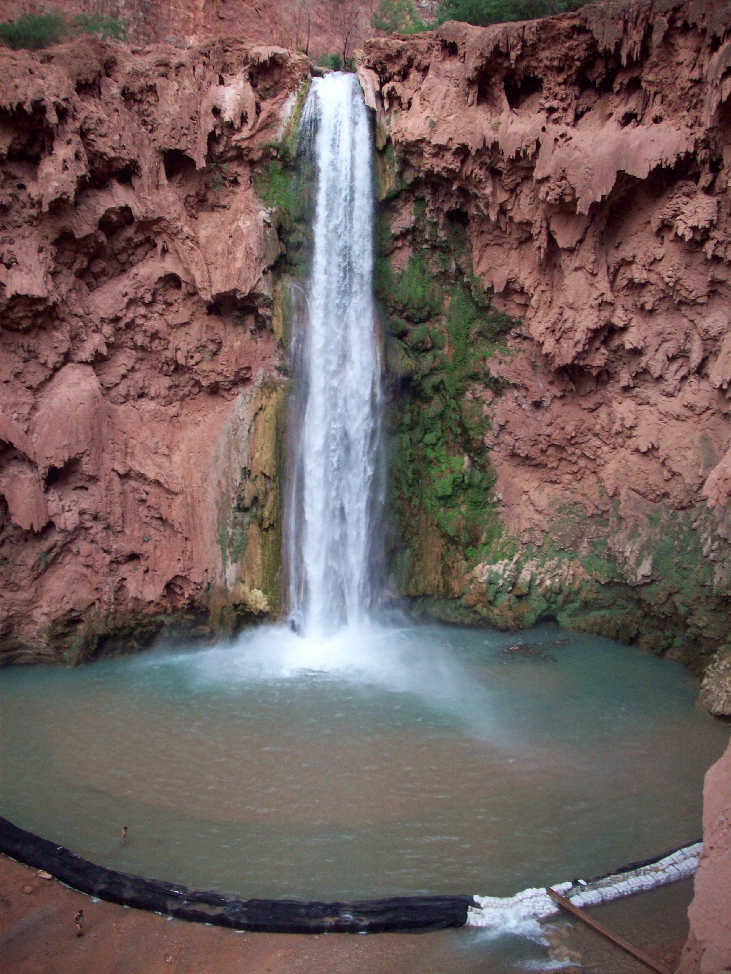 Mooney Falls after the August 2008 flood in Havasupai. The falls have shifted slightly, and the pool below has been recreated by an artificial sandbag dam that will eventually mineralize to form a rock dam.